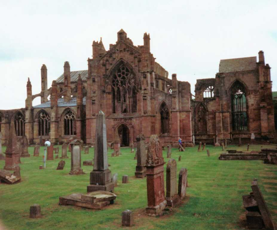 Melrose Abbey, destroyed in English raids in 1544.